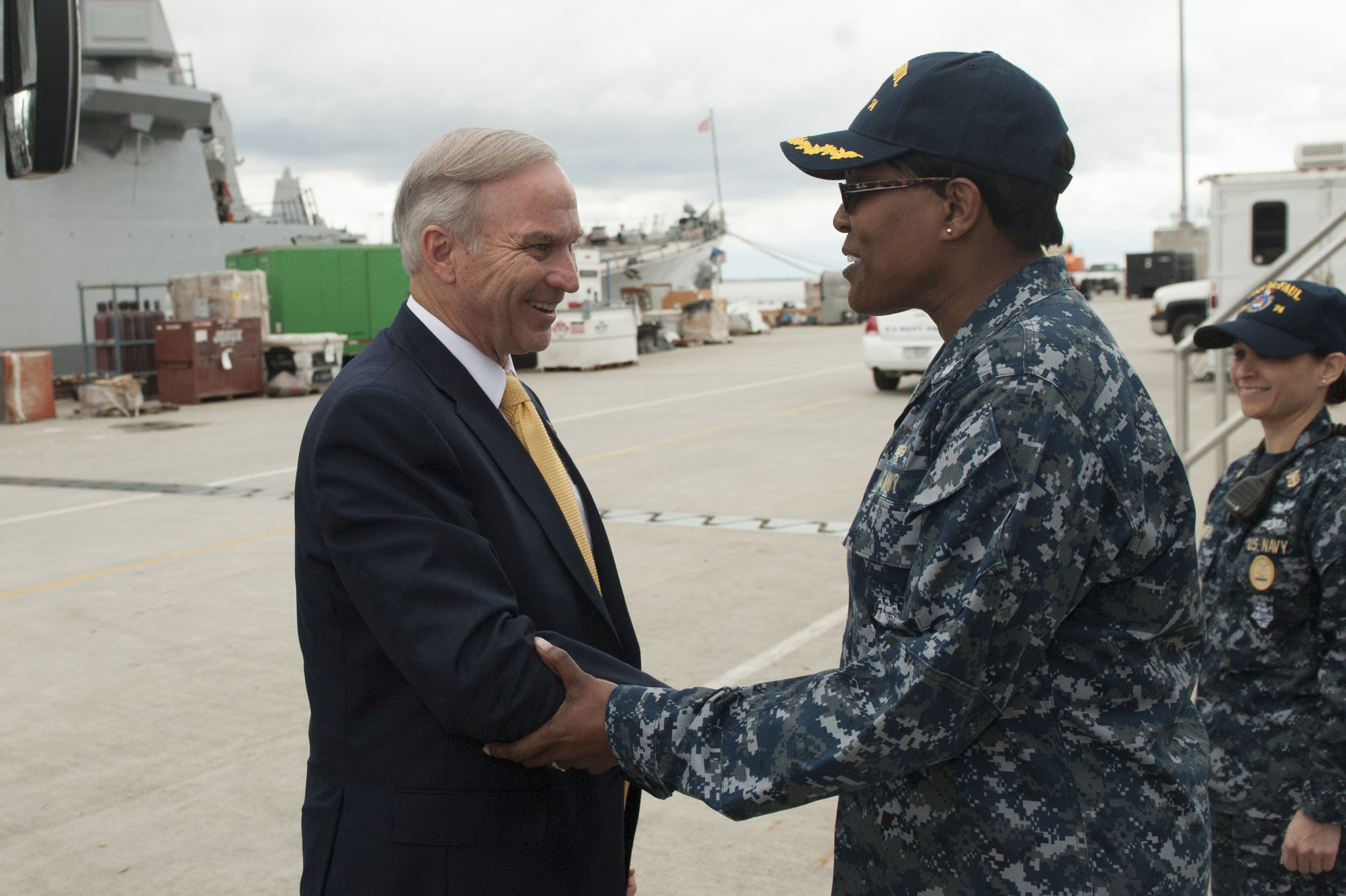 NORFOLK, Va. (May 23, 2016) Cmdr. Janet H. Days, executive officer of the Arleigh Burke class guided missile destroyer USS McFaul (DDG 74), greets Chairman Randy Forbes of the House Armed Services’ Seapower and Projection Forces Subcommittee prior to a tour of the ship. Forbes, along with other representatives, also toured Nimitz Class aircraft carrier USS Dwight D. Eisenhower (CVN 69) and Helicopter Mine Countermeasure Squadron 15 during the visit in order to gain first-hand insight on current Navy readiness. (U.S. Navy Photo by Mass Communication Specialist Gary A. Prill/Released)160523-N-RB564-062 Join the conversation: navylive.dodlive.mil